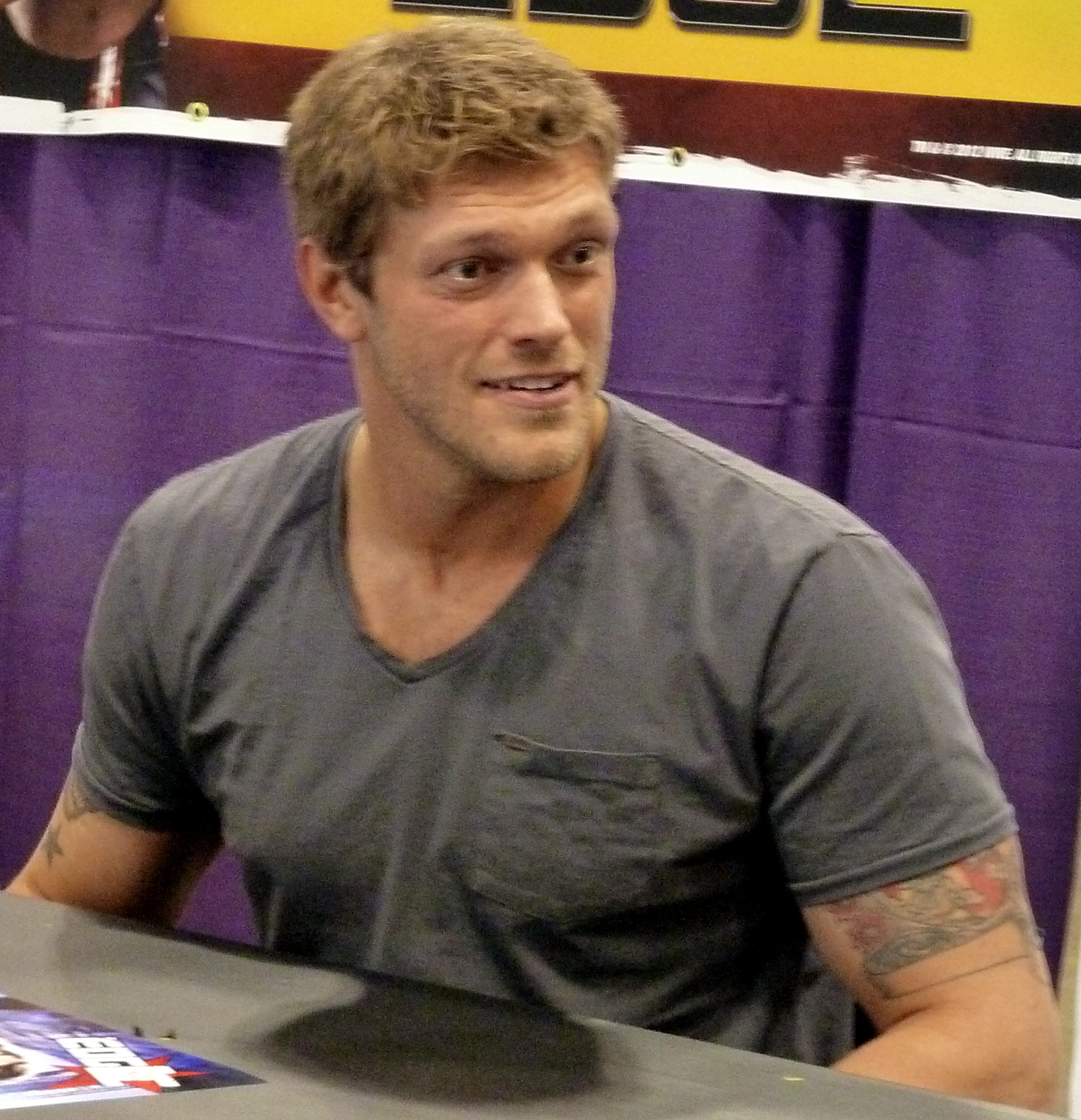 Canadian WWE wrestler "The Edge" at the Wizard World Toronto 2012.